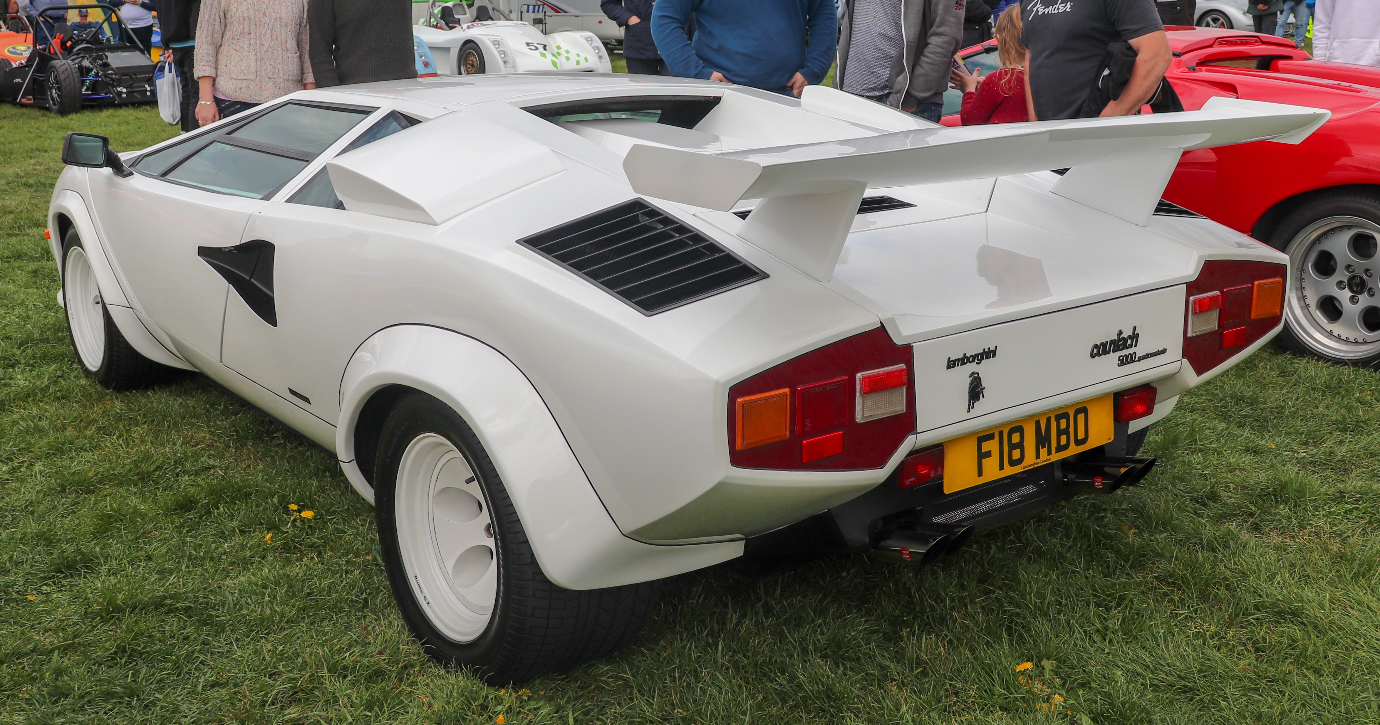 1994 Prova Lamborghini Countach 5000 Replica 4.6 Rear Taken at the Stoneleigh National Kit Car Motor Show 2019